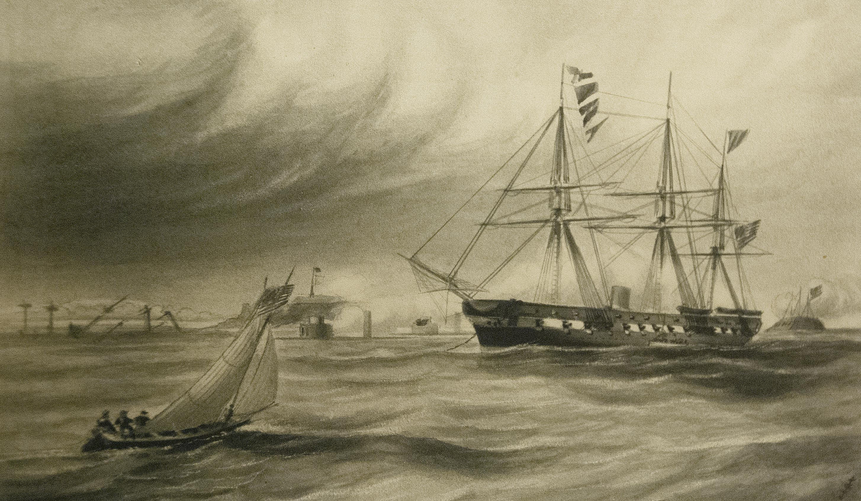 LOT 10469-7: USS Wabash, last gun from Fort Sumter. Photo-types by Gutekunst of water color paintings by A.C. Stewart, an Engineer in the U.S. Navy during the War of the Rebellion, compliments of the William Cramp and Sons Ship and Engine Building Company to Colonel W.B. Remey, USMC, Judge Advocate General, circa 1880s. Courtesy of the Library of Congress. (5/22/2015).